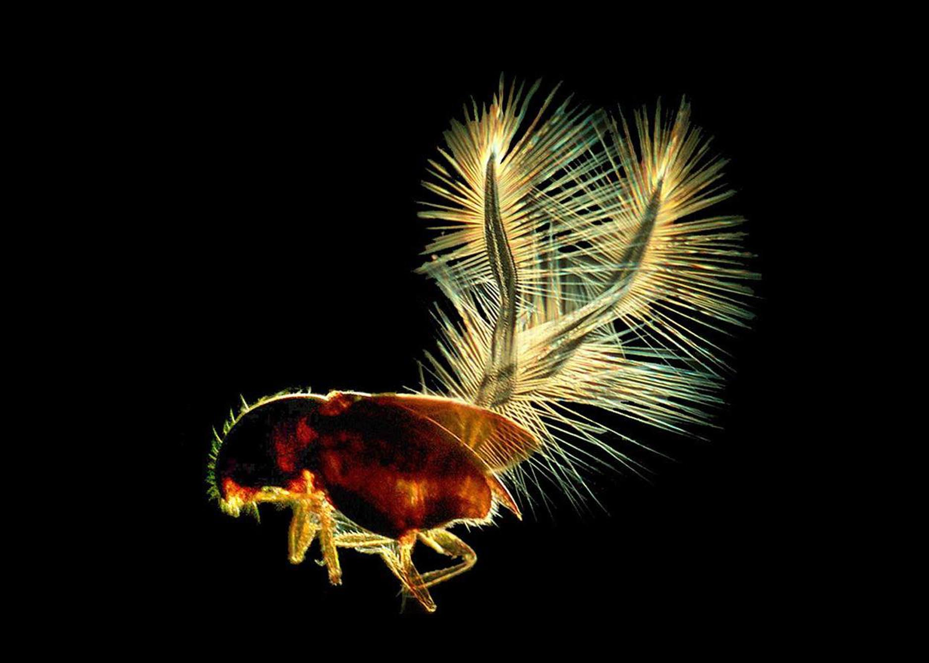 Trichopteryx atomaria (male) - Fairy Beetle c. 1890